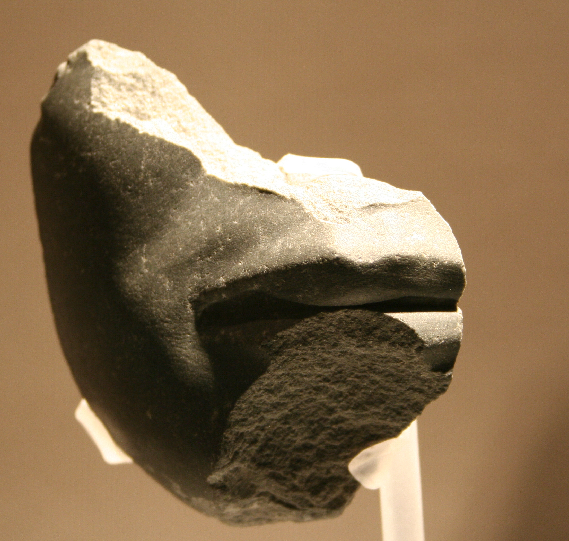 fragment of a statue of king Khafre